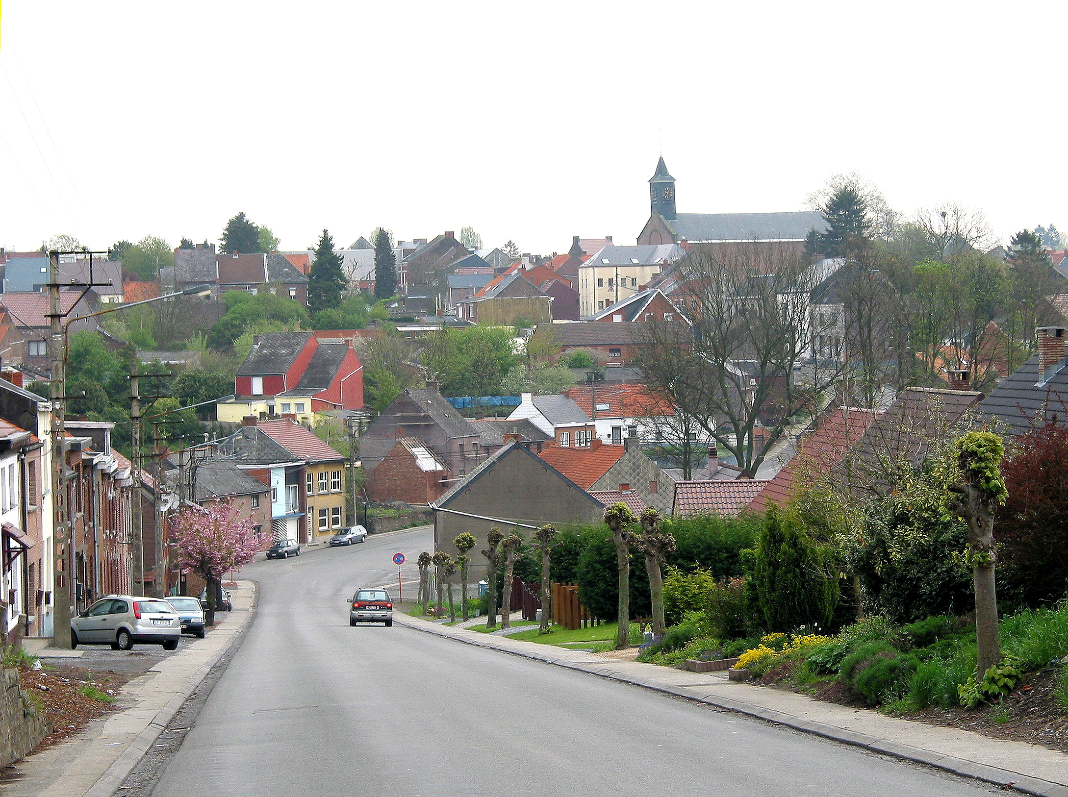 La Bouverie (Belgium), le Fond Touijen (Rue du Grand Passage).